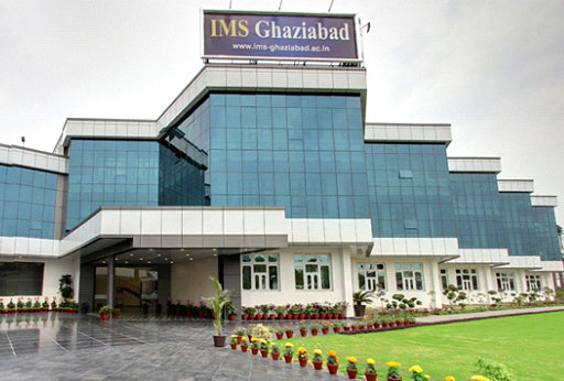 Photograph showing the Main Building of IMS Ghaziabad